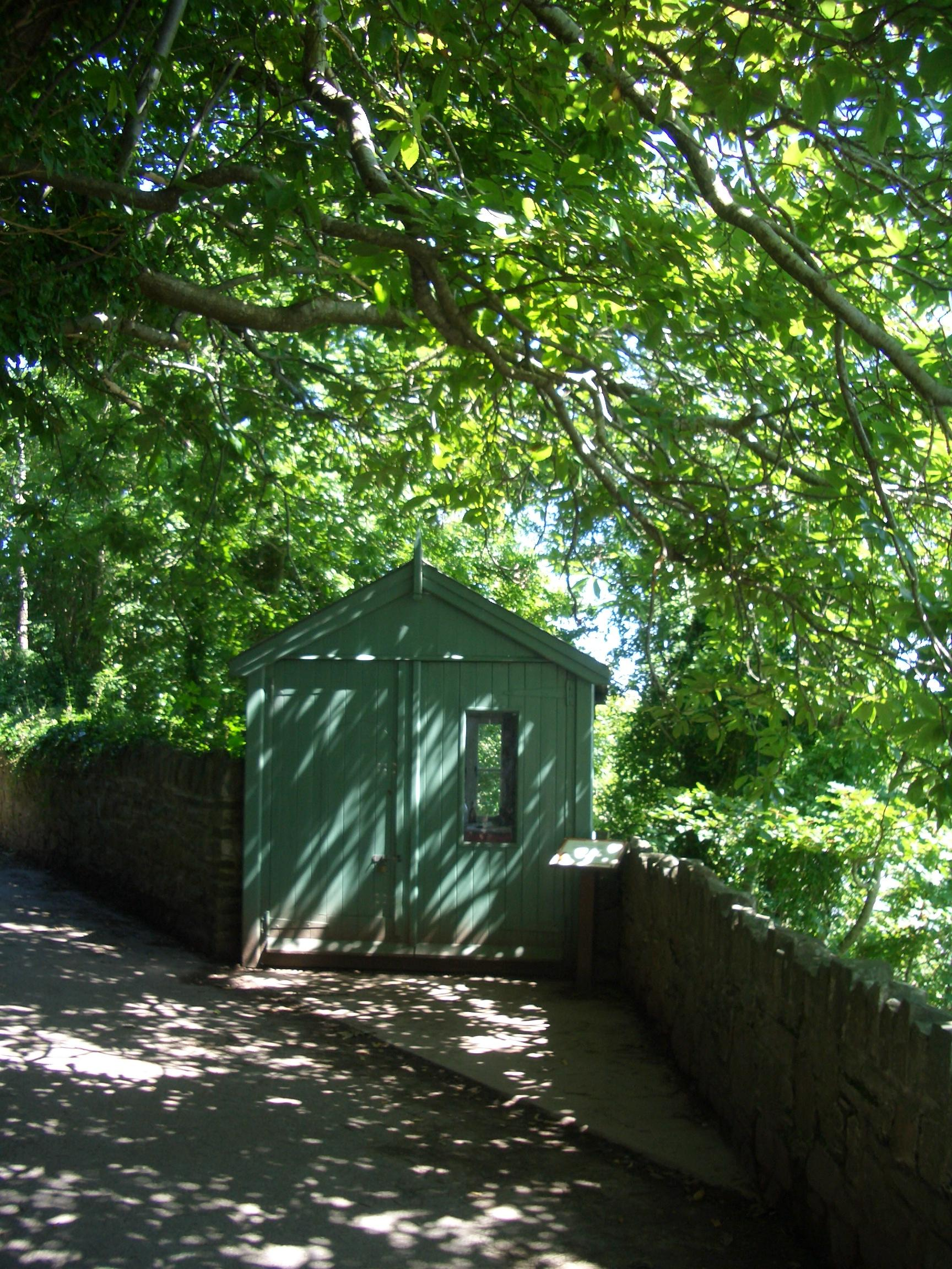 The shed at Dylan Thomas' Boathouse, Laugharne, Wales, GB